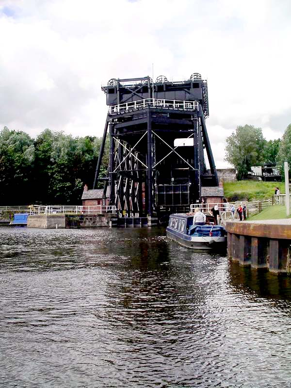 Picture of the Anderon Boat Lift from the River Weaver